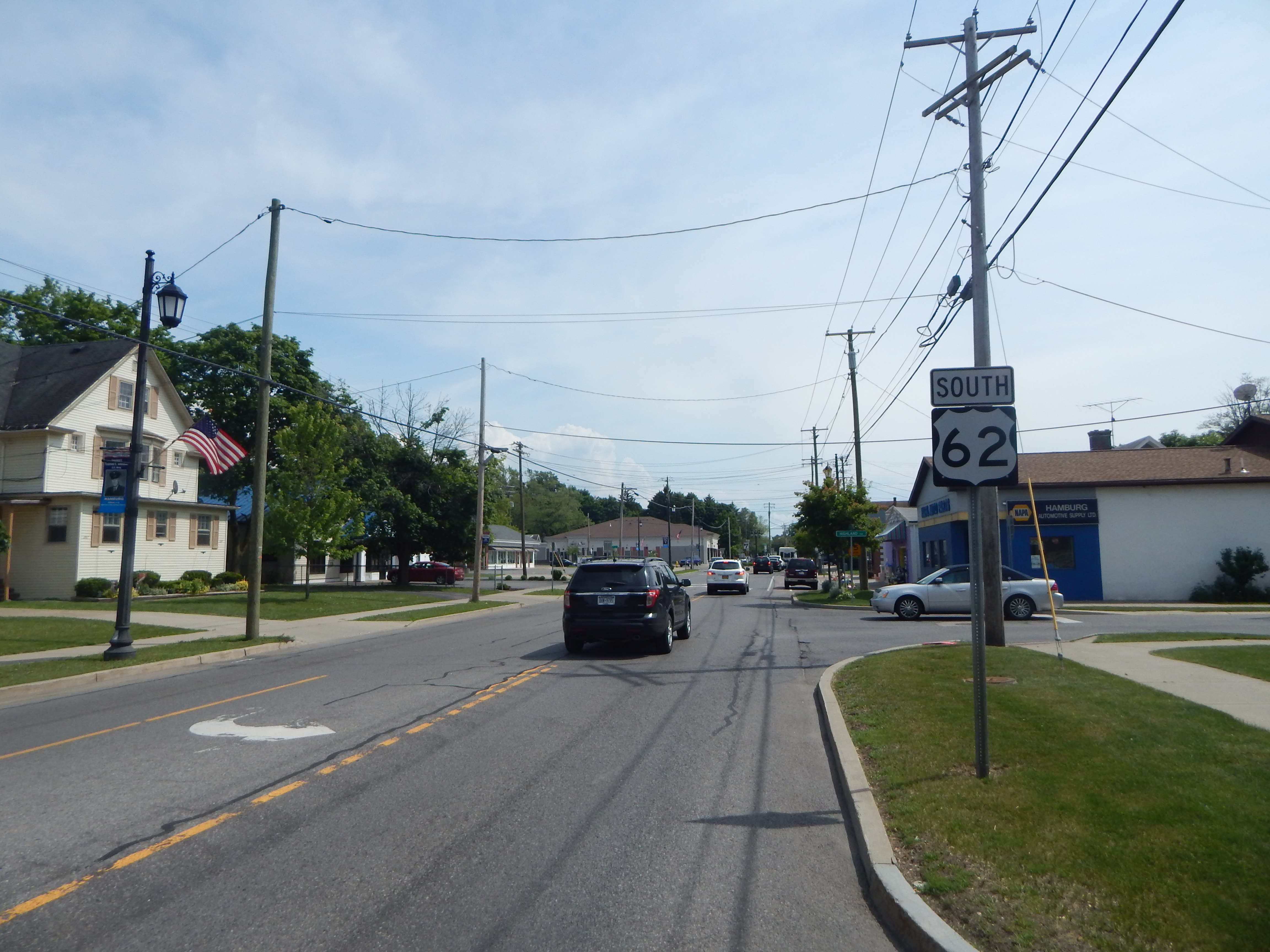 U.S. Route 62 southbound through the village of Hamburg, New York